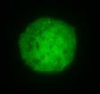 MGluR1 stained with GFP. Caption reads "TIRF-M images of mGluR1-GFP fluorescence in SCG neurons expressing the receptor alone, "mGluR1-GFP", or with co-expression of the indicated Homer protein. Two representative neurons from each group are shown. The total number of neurons examined for each group were: mGluR1-GFP (19 cells)..." (This image uses only the first image in a series in fig 1)